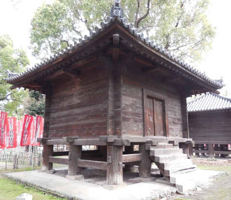 Sumiyoshi Taisha storehouse